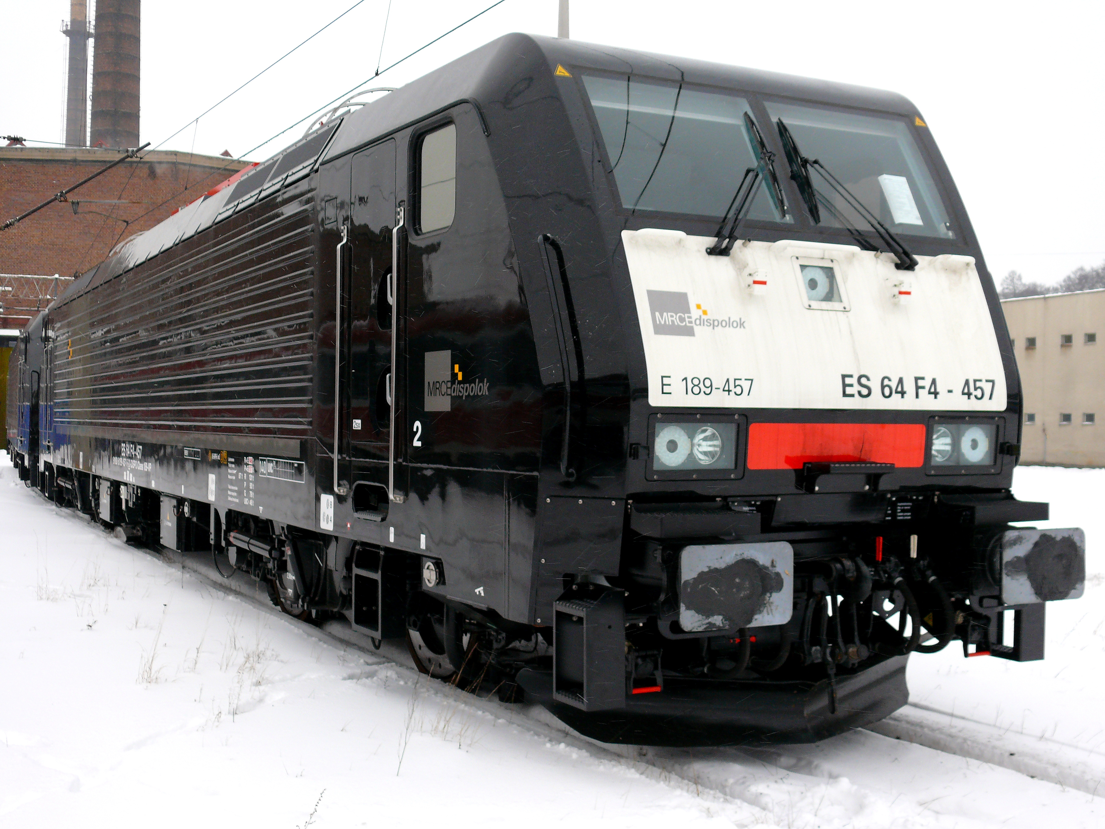 Siemens locomotive Class 189-457, Przewozy Regionalne, Torun Kluczyki, Poland